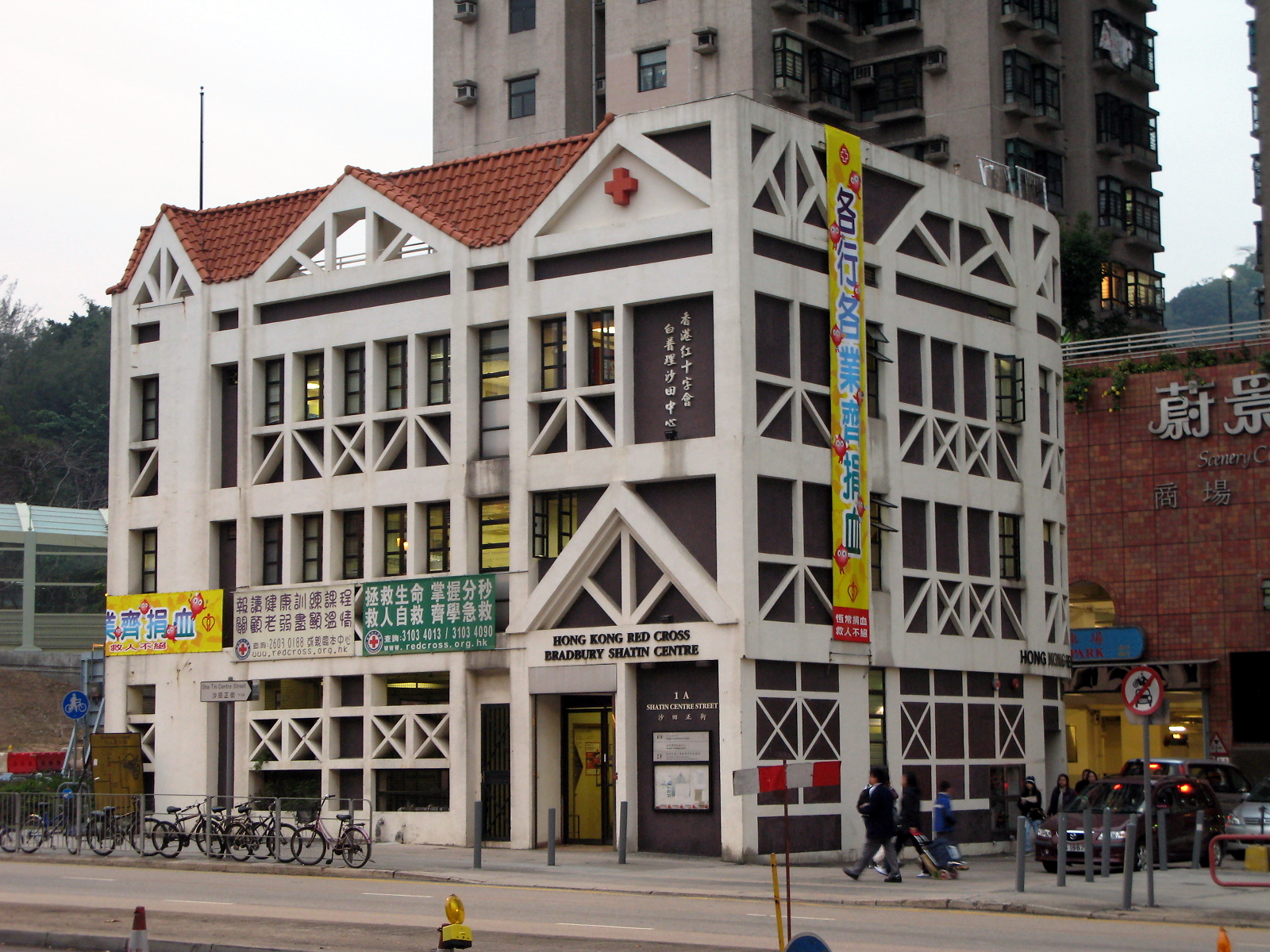 HK Red Cross Shatin Centre